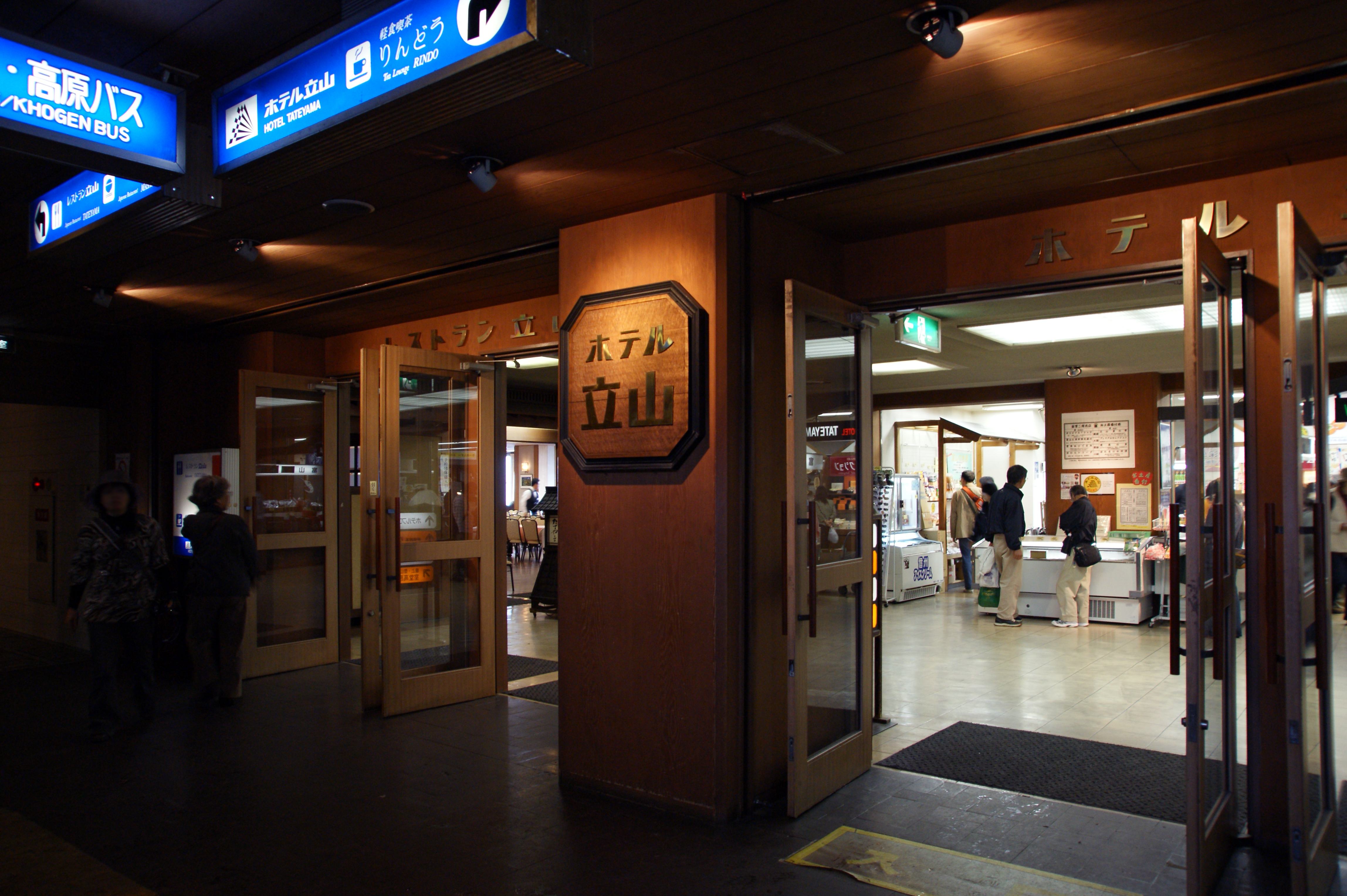 Hotel Tateyama in Tateyama, Toyama prefecture, Japan